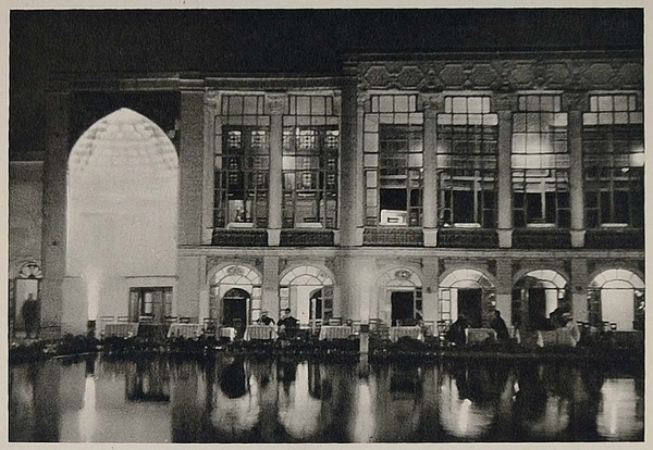 Nizamieh Palace and Garden in Tehran, circa 1930